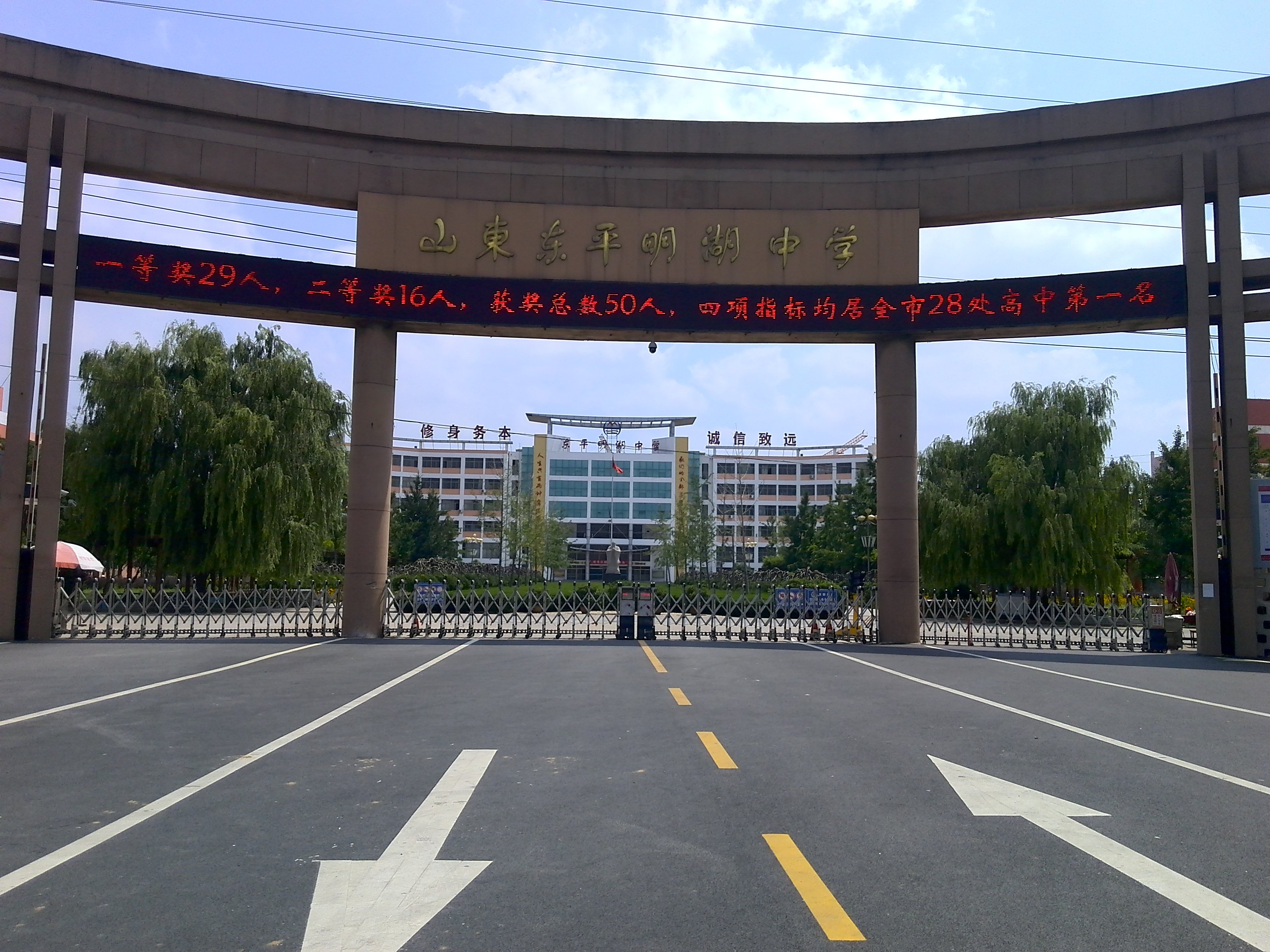 Dōngpíng Mínghú School